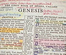 A KJV Bible with Bishop Ussher's date of creation, 4004 BC. Photo taken by Hoshie. Public Domain.